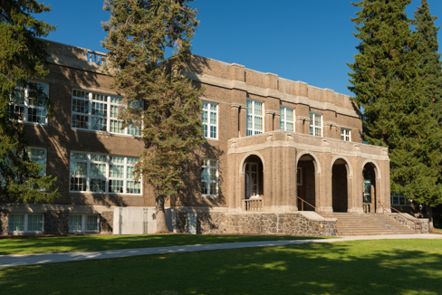 The old Bend High School building in Bend, Oregon.